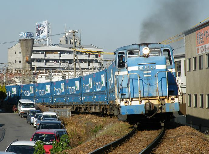 Type ND552(No.ND5527) of Nagoya Rinkai Railway, Nagoya city, Japan.